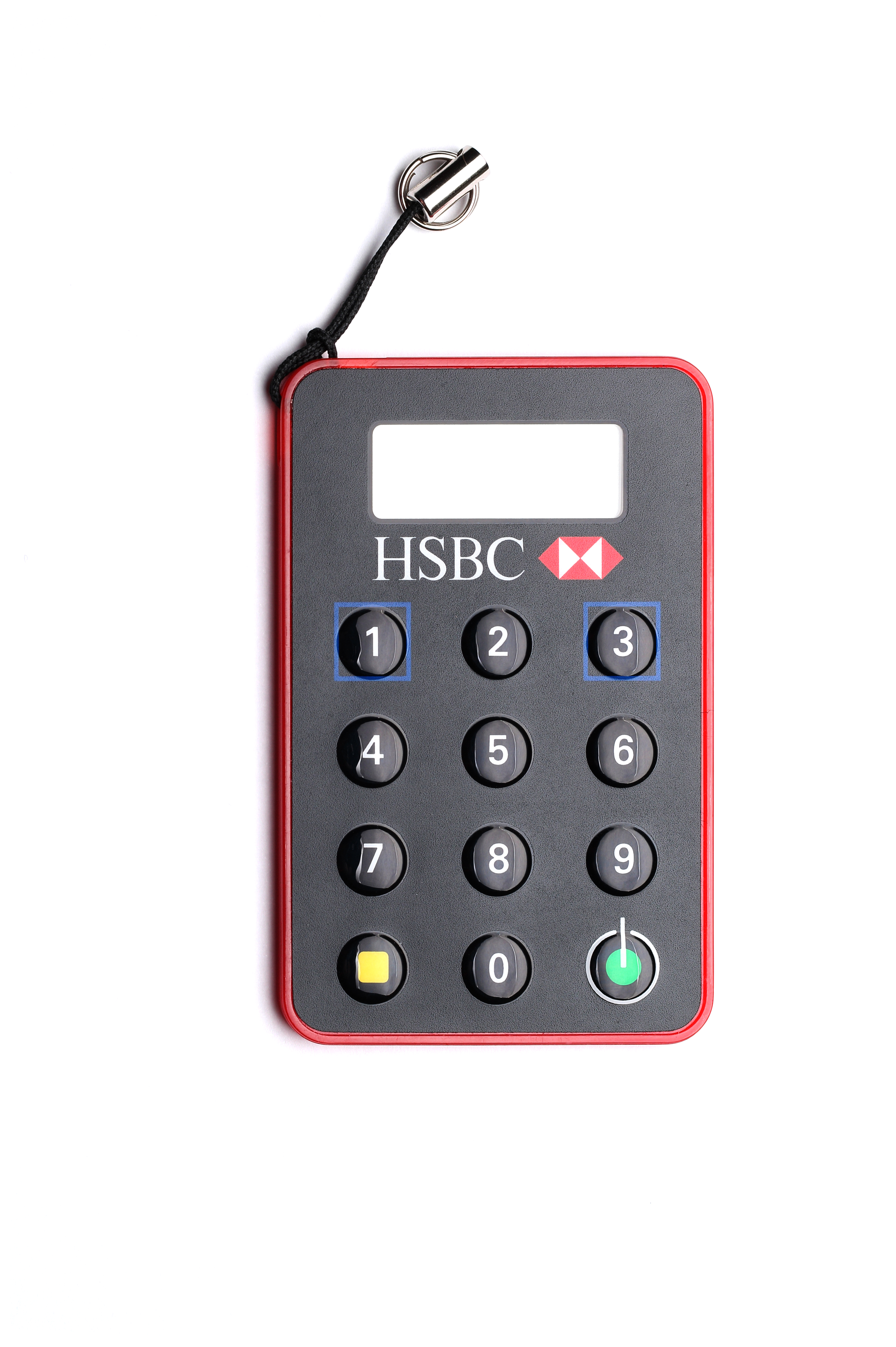 Digipass 270 security token provided by HSBC bank.